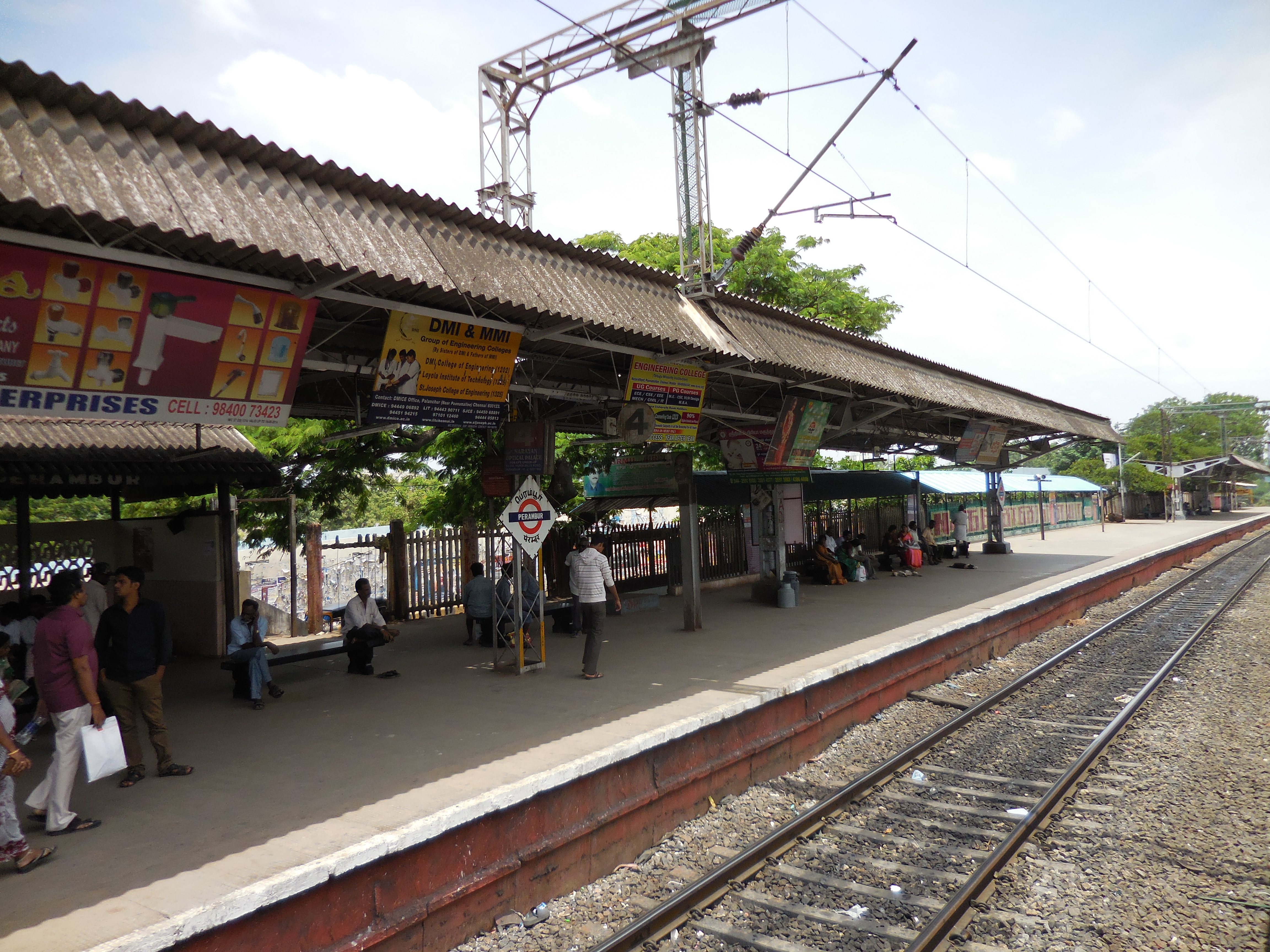 Platform 1 at Perambur railway station, Chennai, taken on 15 July 2014 at noon.